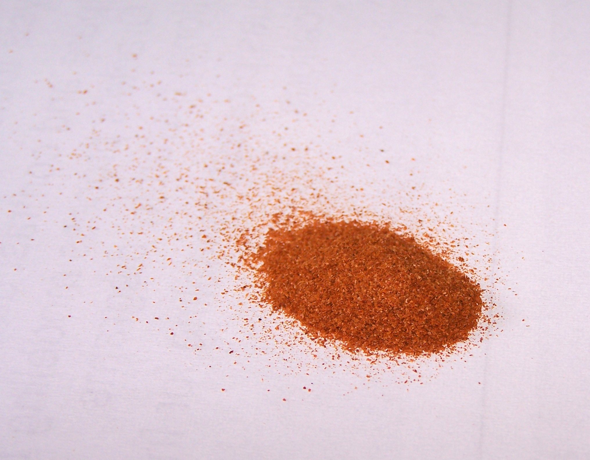 Pili pili spice